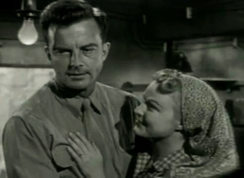 William Lundigan and June Haver in the film Love Nest (1951) - trailer (cropped screenshot)